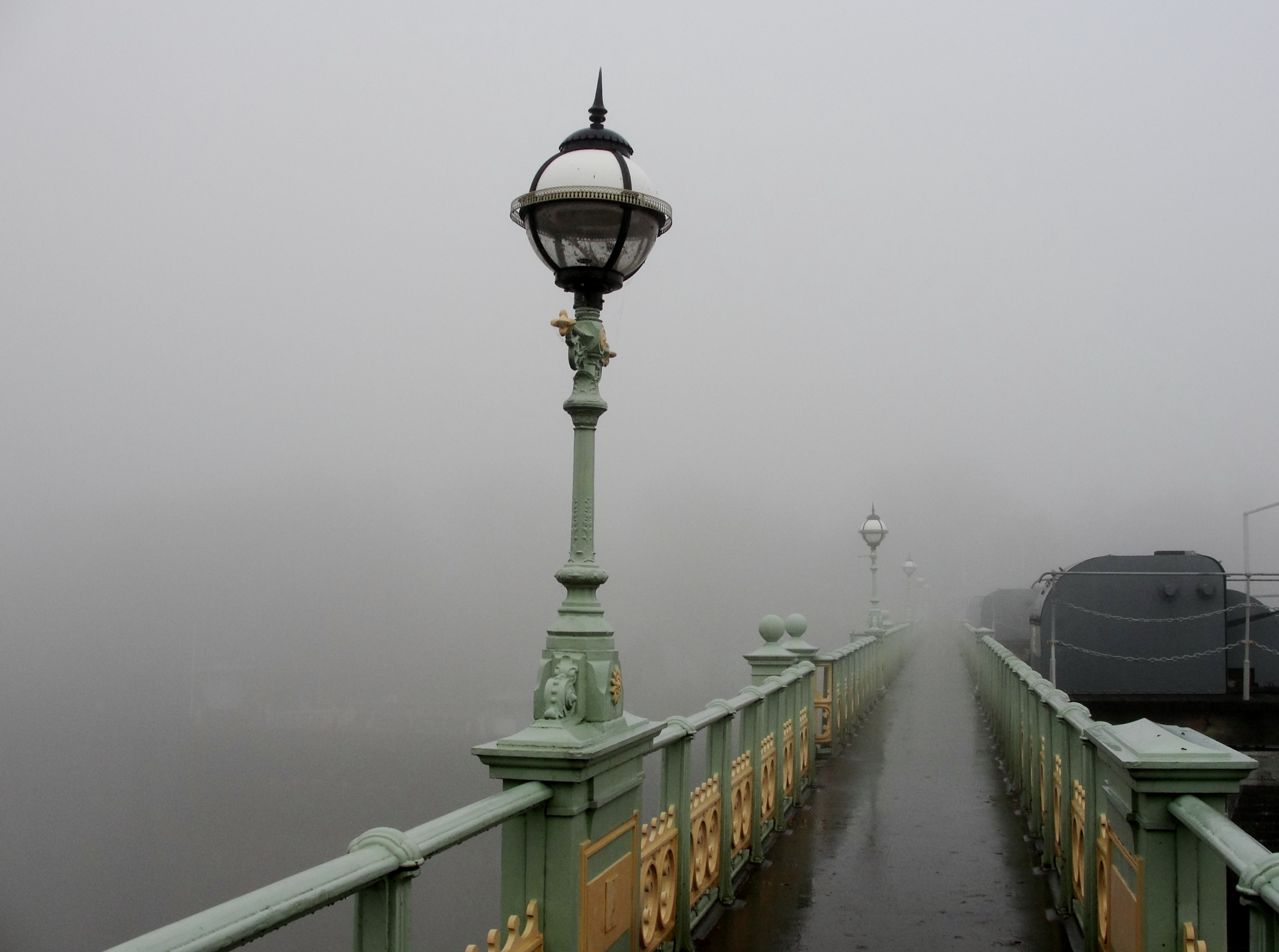 Richmond Lock footbridge over the Thames